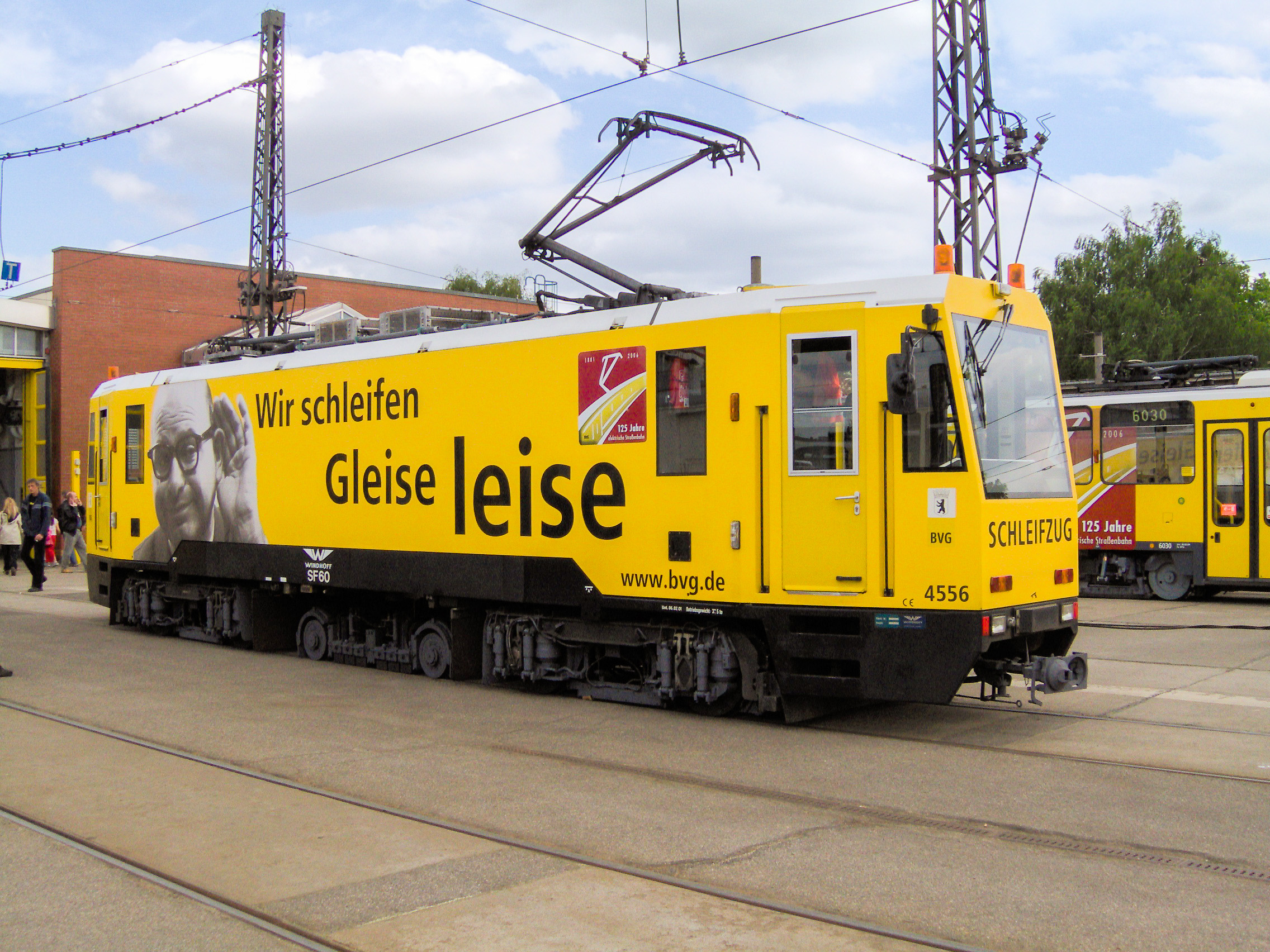 A railgrinder tram from Berlin. Taken by ProhibitOnions, 2006.